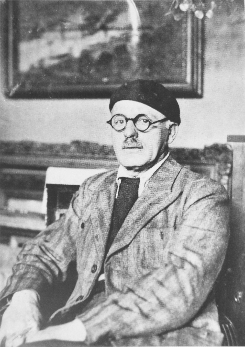 Robert Antoine Pinchon, Post-Impressionist painter of the Rouen School (l'École de Rouen)